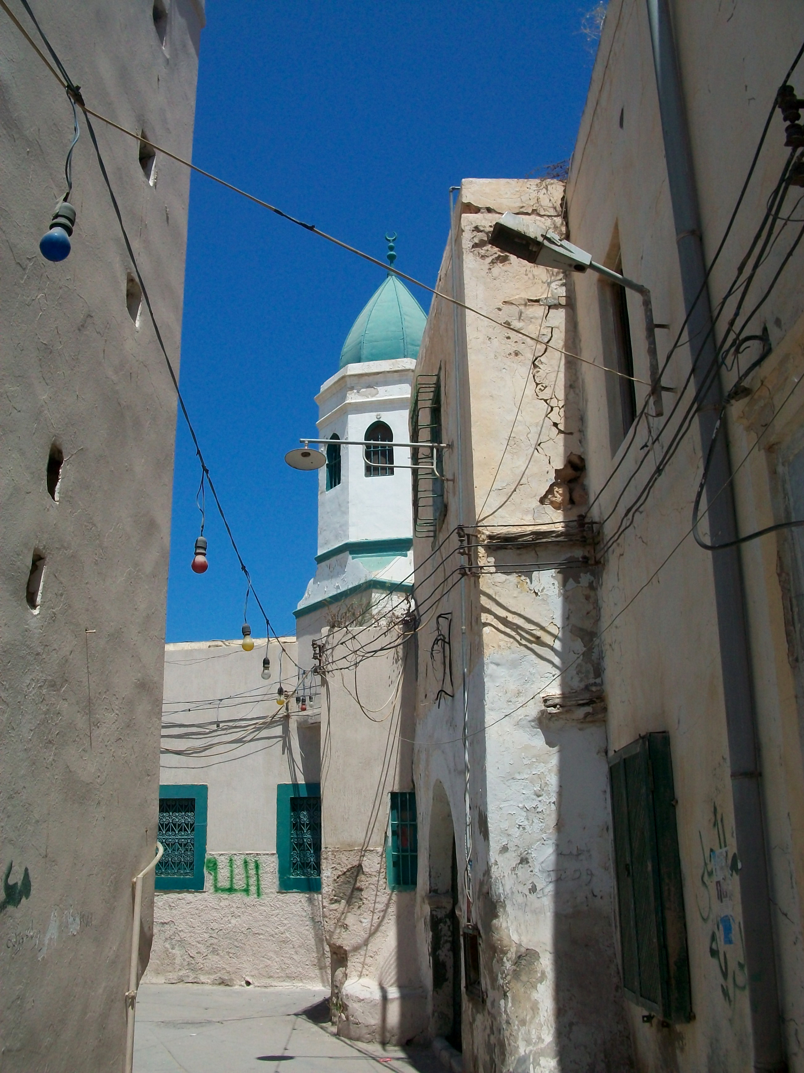 The Qadiriyya Zawiya (Sufi lodge) in the medina of Libya's capital Tripoli. It is currently also used as a prayer room (mosque)